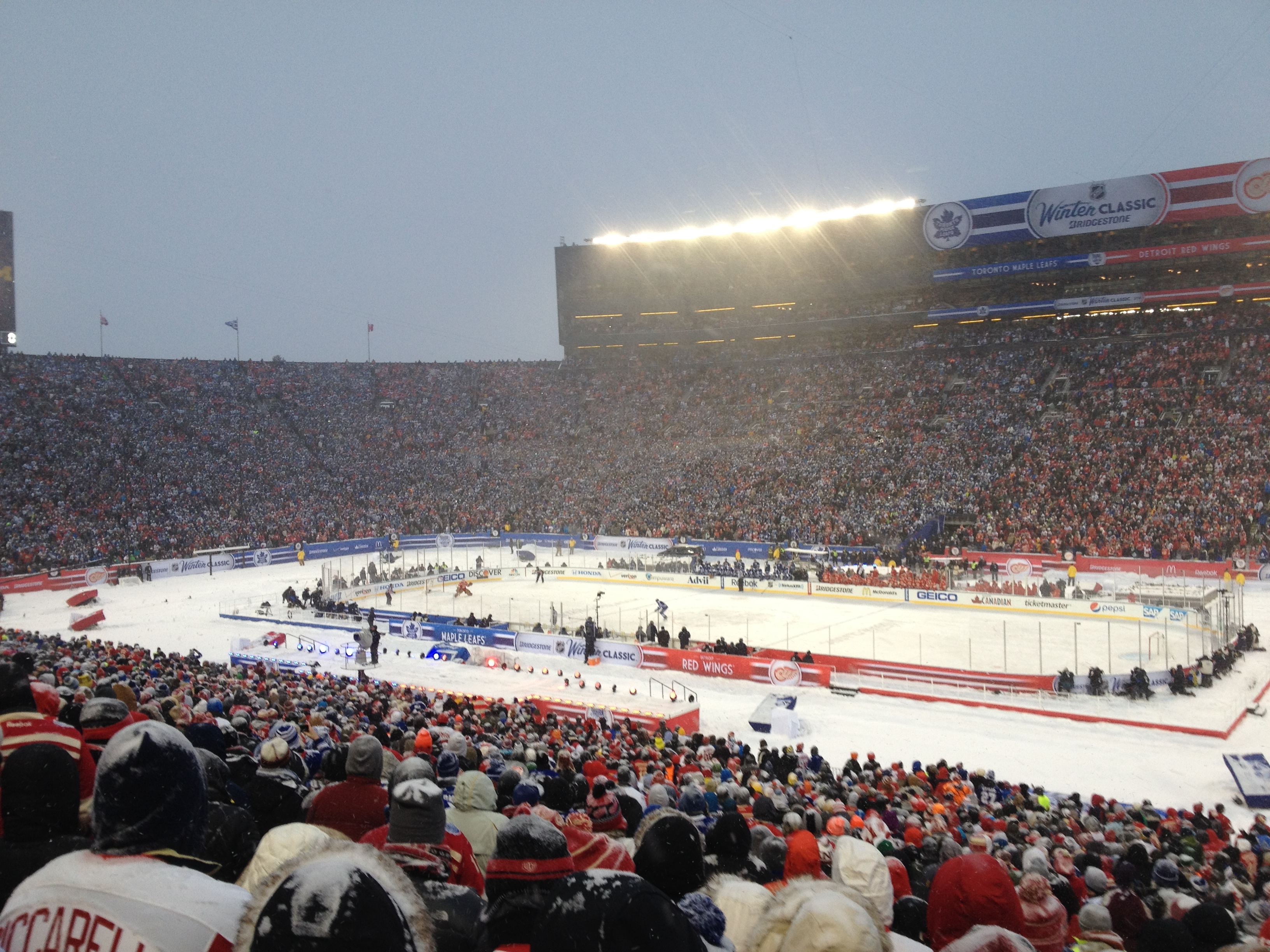 Joffrey Lupul's shootout attempt on Jimmy Howard in the 2014 NHL Winter Classic.